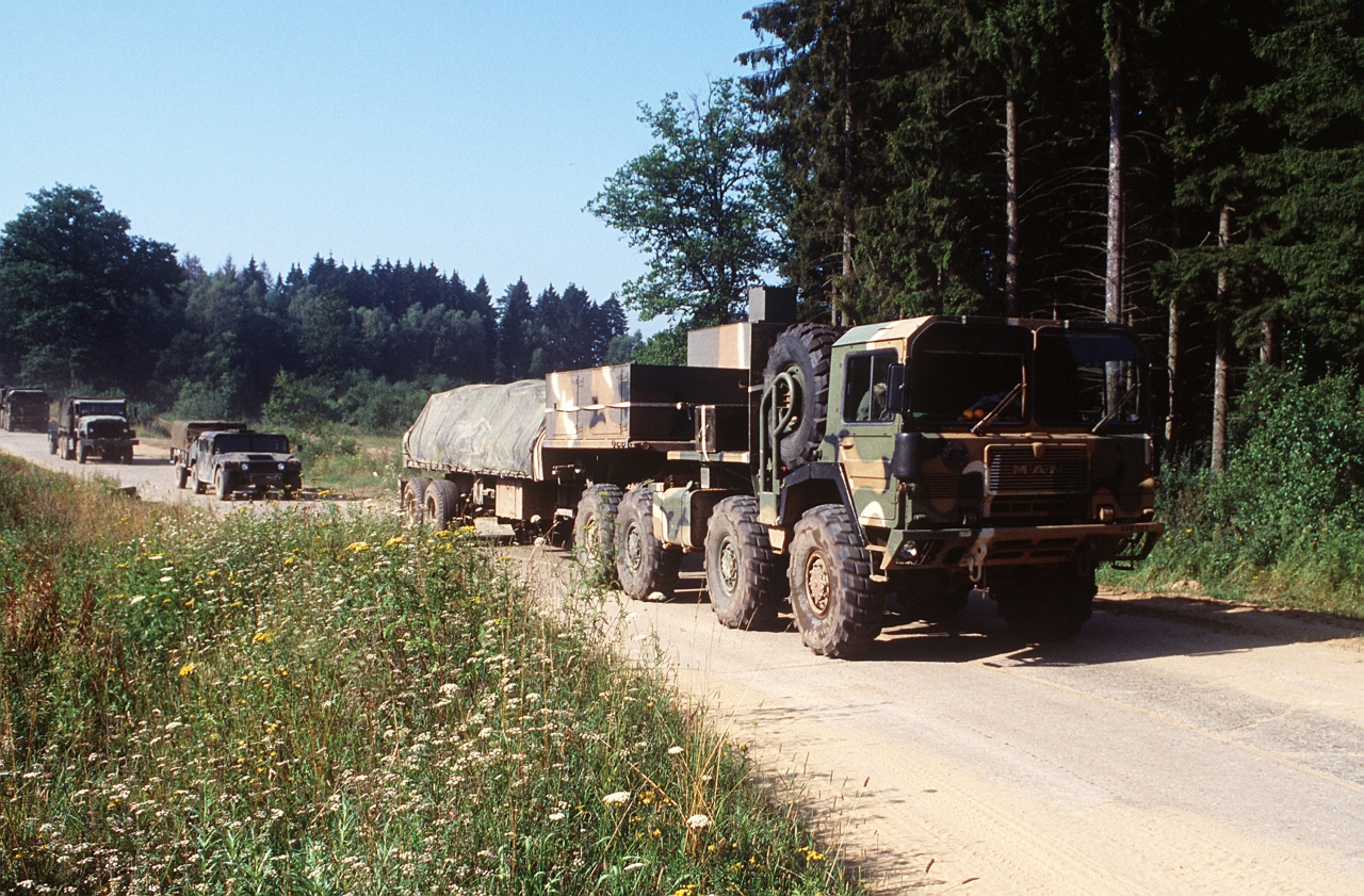 Members of the 485th Tactical Missile Wing maintain security posts in preparation for a simulated launch of a BGM-109G ground launched cruise missile. The M-1014 German MAN tractor and attached transporter-erector-launcher are parked in the background